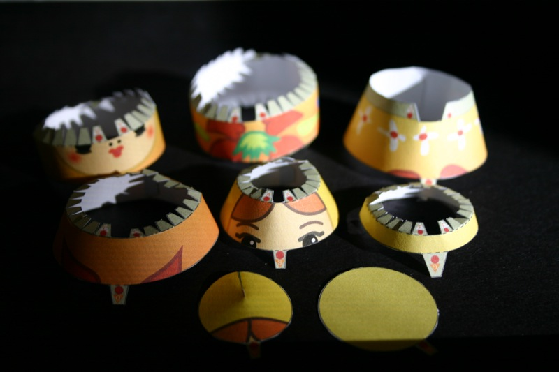 Paper pieces for Russian nesting doll. Pattern free from Canon. Paper Matryoshka Dolls. Paper pieces for Russian nesting doll. Pattern free from Canon.